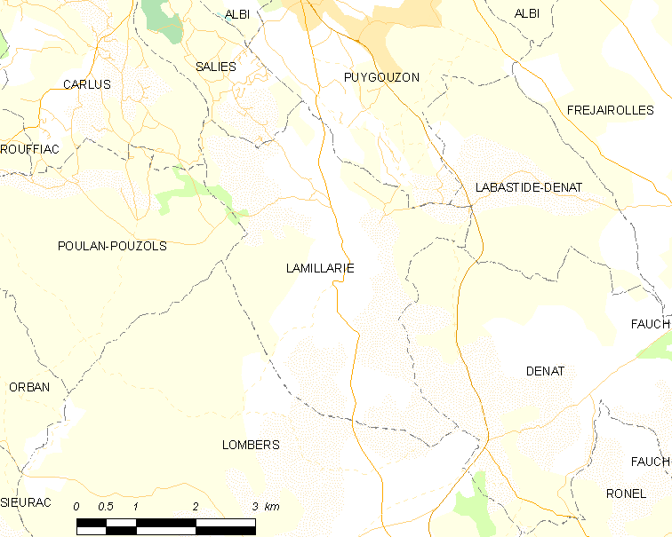 Map of French municipality Lamillarié